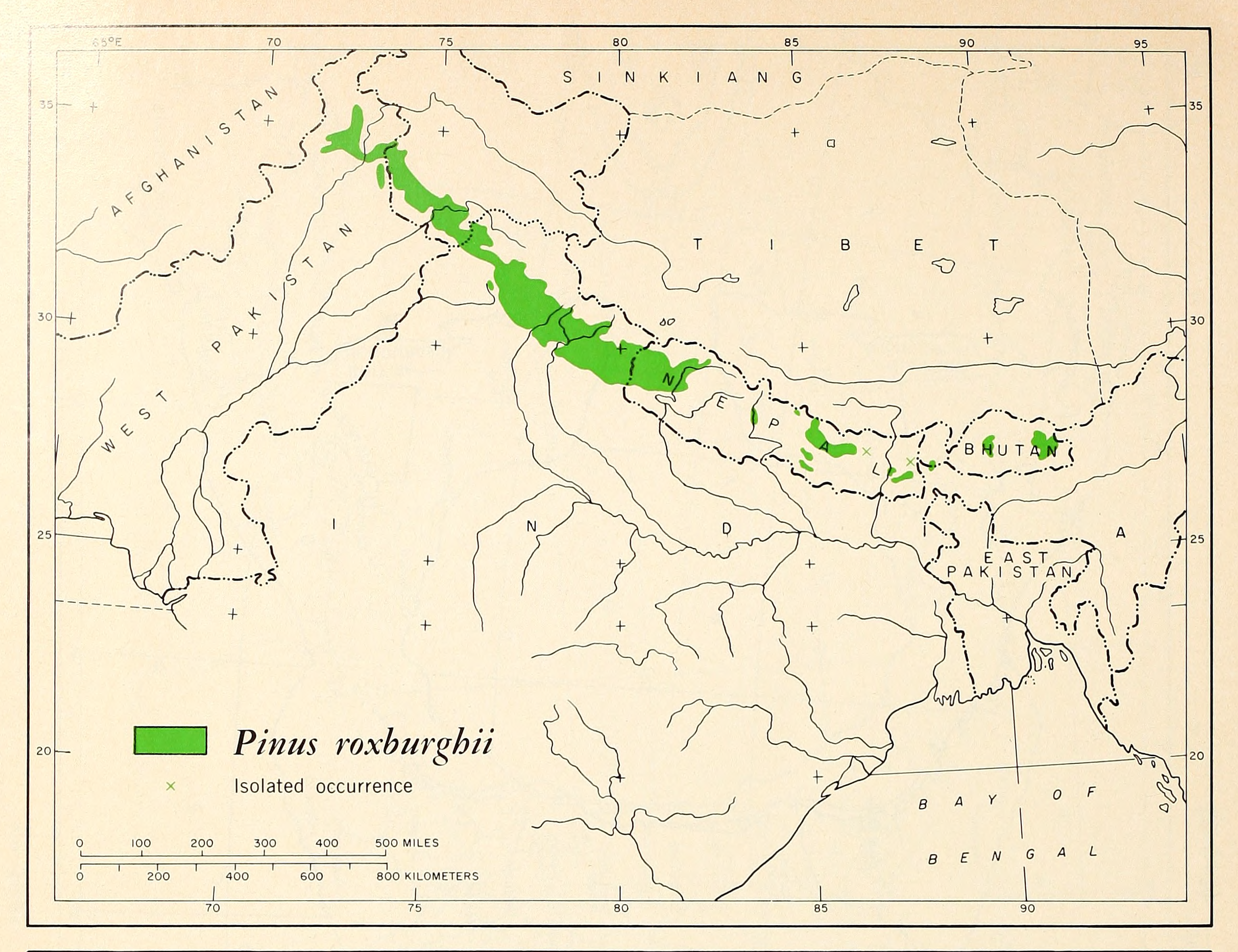 Map 24a. Pinus roxburghii distribution